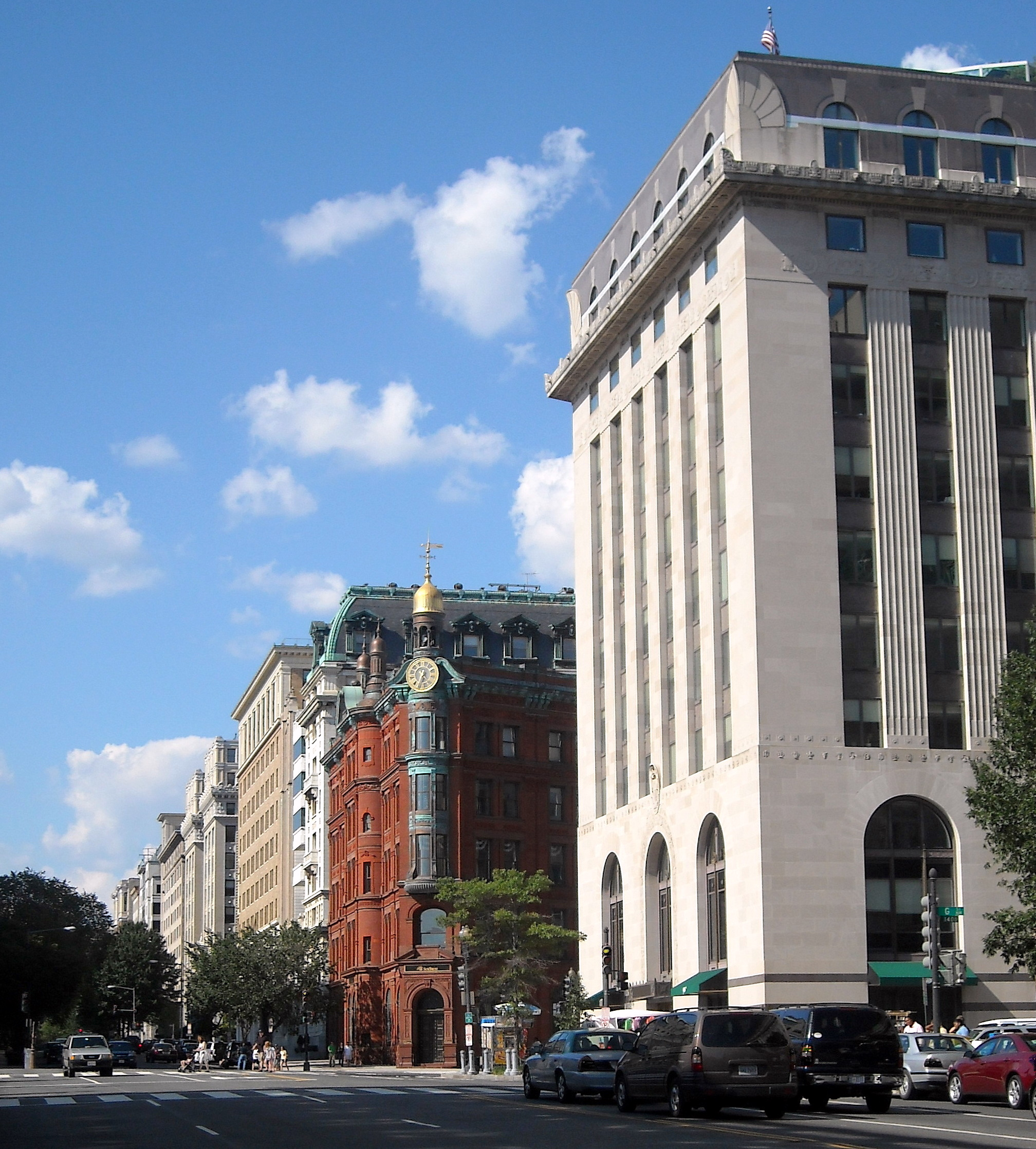 The 700 block (east side) of 15th Street, NW in Downtown Washington, D.C. The buildings seen in this photo include the following: (starting with the nearest) 1440 New York Avenue National Security & Trust Company; 1445 New York Avenue, NW Folgers Building (W.B. Hibbs and Company Building); 725 15th Street, NW Swartzell, Rheem and Hensey Building; 727 15th Street, NW 729 15th Street, NW Woodward Building; 733 15th Street, NW Southern Building; 805 15th Street, NW Bowen Building; 875 15th Street, NW All buildings located on 15th Street, NW between Pennsylvania Avenue and I Street are contributing properties to the Fifteenth Street Financial Historic District (most notably the United States Department of the Treasury Headquarters). The district was added to the National Register of Historic Places in 2006.